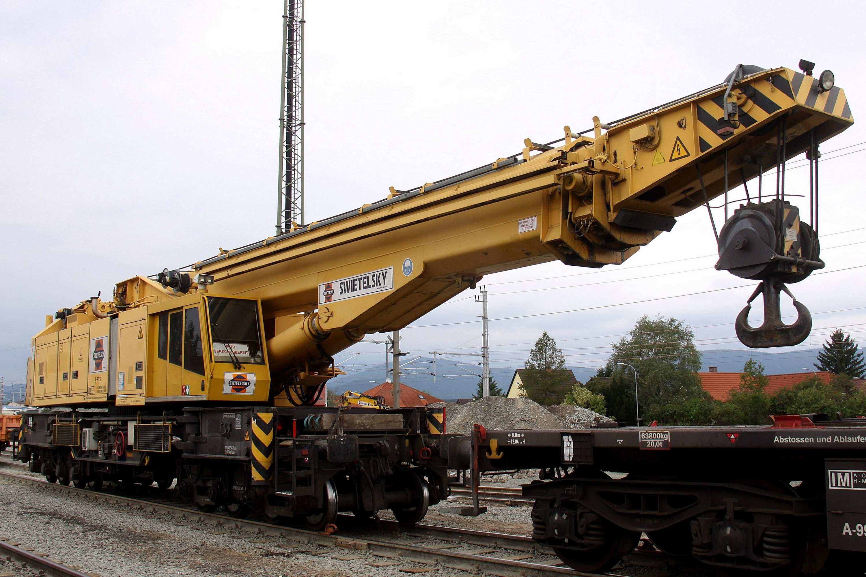 Total remodeling, renovation and modernization of Neunkirchen railwaystation. – Kirov rail crane from the company „Swietelsky“.